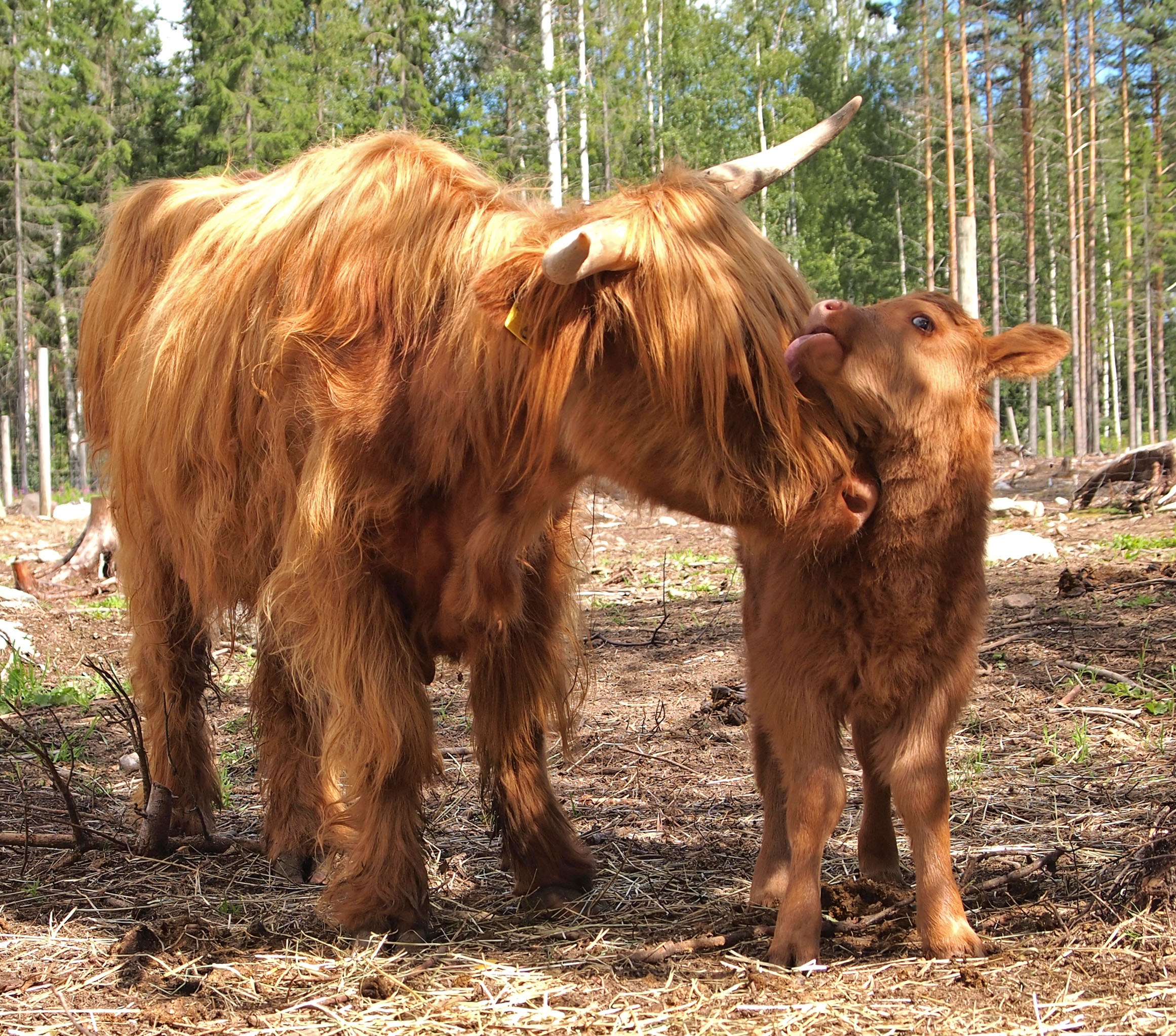 Highland cattle licking in Ysitien Lemmikki Zoo.